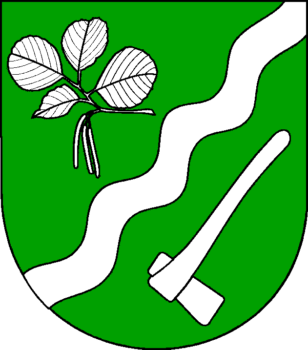 Coat of arms of the municipality Ellerdorf in Schleswig-Holstein, Germany.